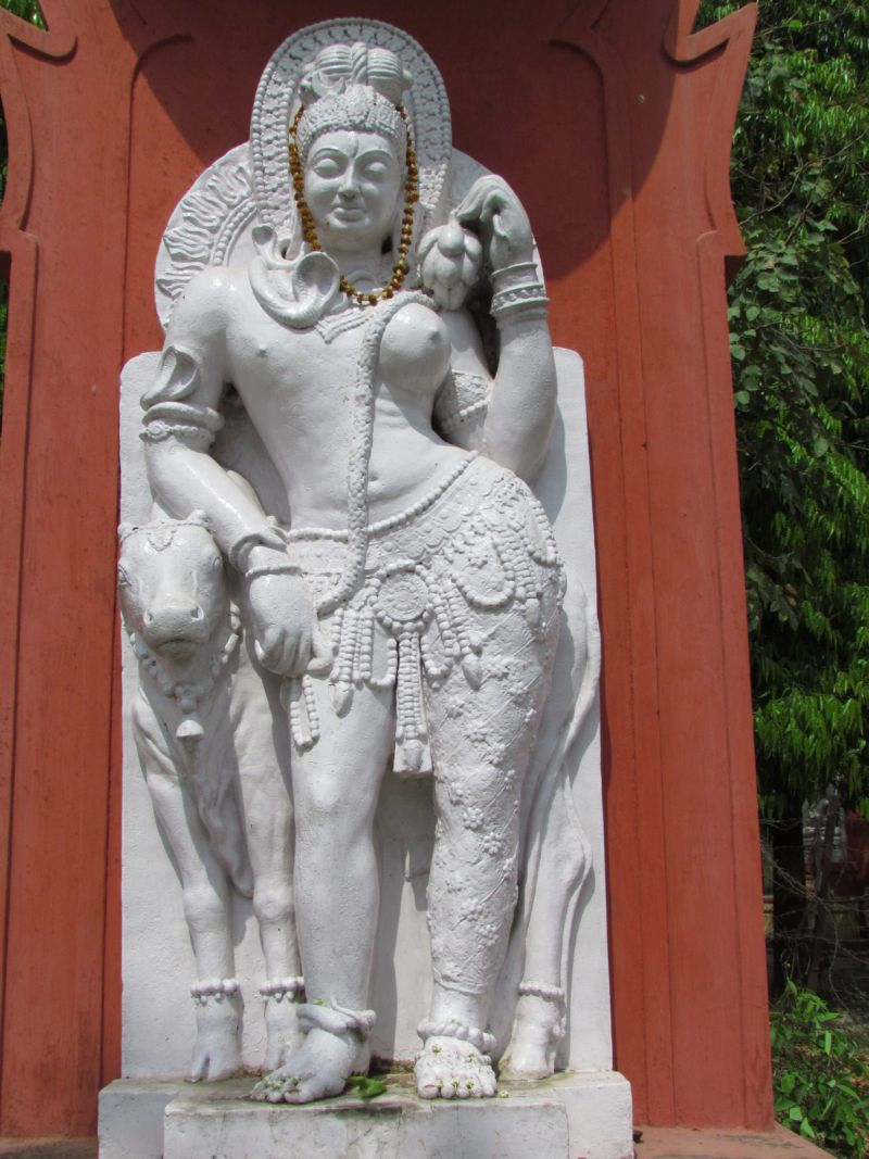 A contemporary Ardhanarishvara statue near on the main road in front of the administrative building at Sampurnanand Sanskrit University in Varanasi